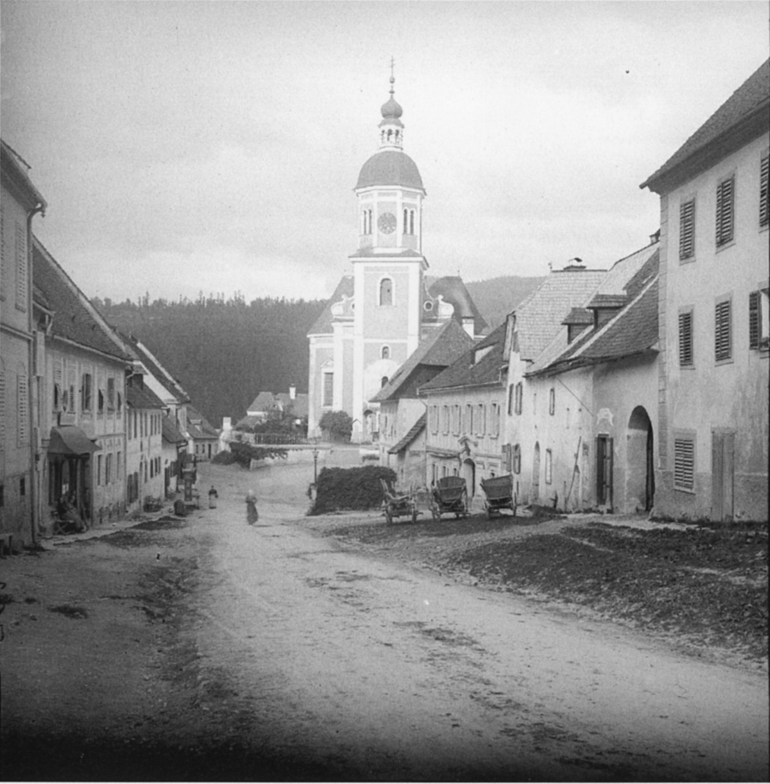 Petschar, Friedlmeier, Steiermark in alten Fotografien, Ueberreuther Verlag Wien. Scanprojekt Community Projektbudget 2012 This scan or this PDF-file was created within the GLAM-project Bookscanning, supported by Wikimedia Germany and Wikimedia Austria as a part of the community-project to capture books, documents and pictures which are not eligible to copyright or for which the copyright has expired. This document describes or depicts an object which is located in Austria today. Texts are written German language. Send requests for uncompressed scans to Hubertl. This work is in the public domain in its country of origin and other countries and areas where the copyright term is the author's life plus 100 years or fewer. You must also include a United States public domain tag to indicate why this work is in the public domain in the United States. This file has been identified as being free of known restrictions under copyright law, including all related and neighboring rights.